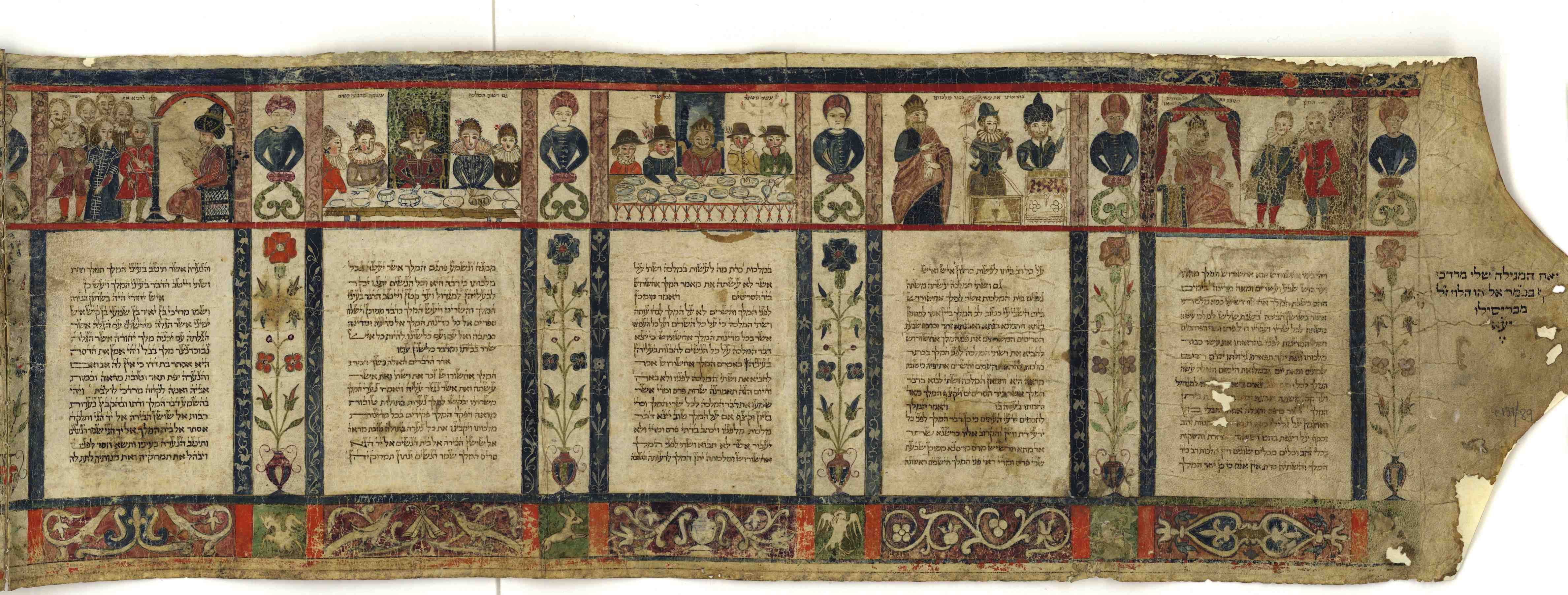 Megillat Esther Italy 1616